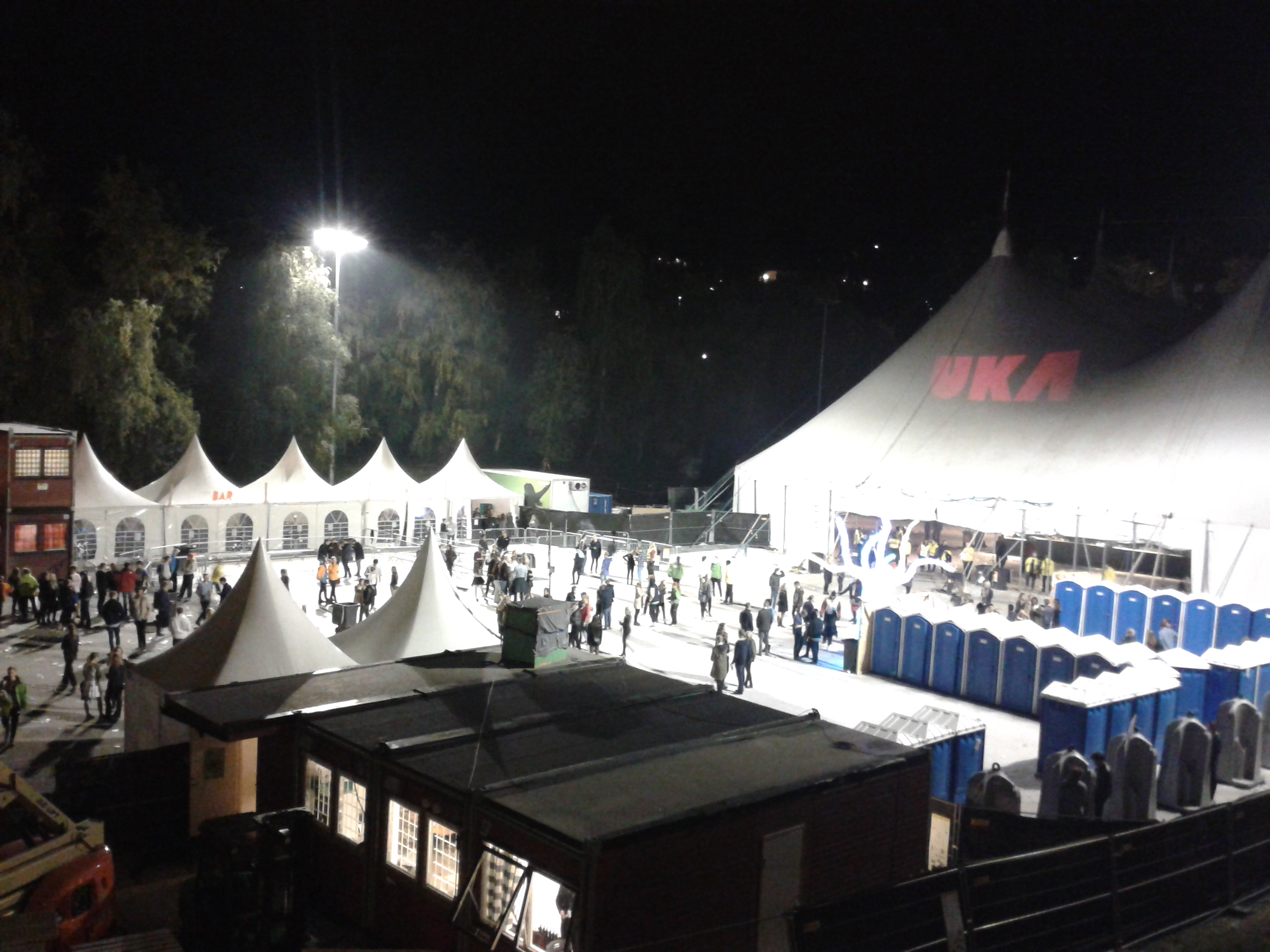 Festival area of UKA 2015 in Trondheim, Norwegen.